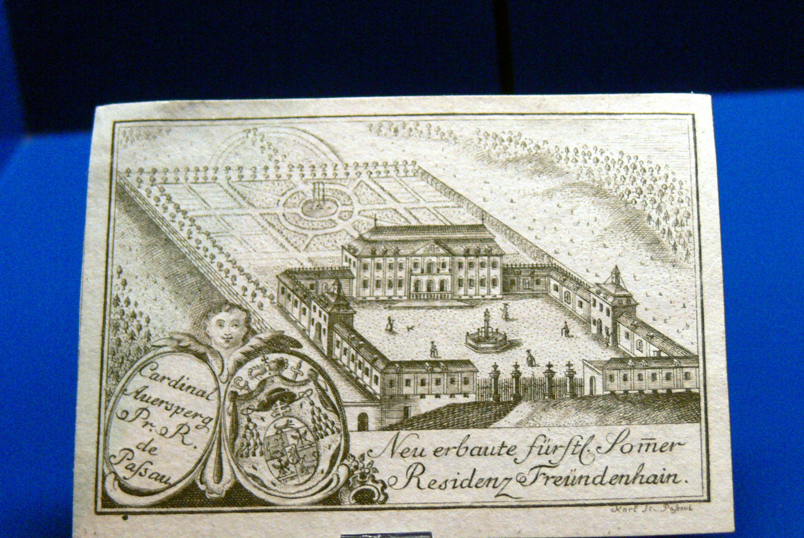 Oberhausmuseum ( Passau ). Visiting card ( 1790 ) of Joseph Franz Anton von Auersperg, bishop of Passau, showing his new summer residence Freudenhain.